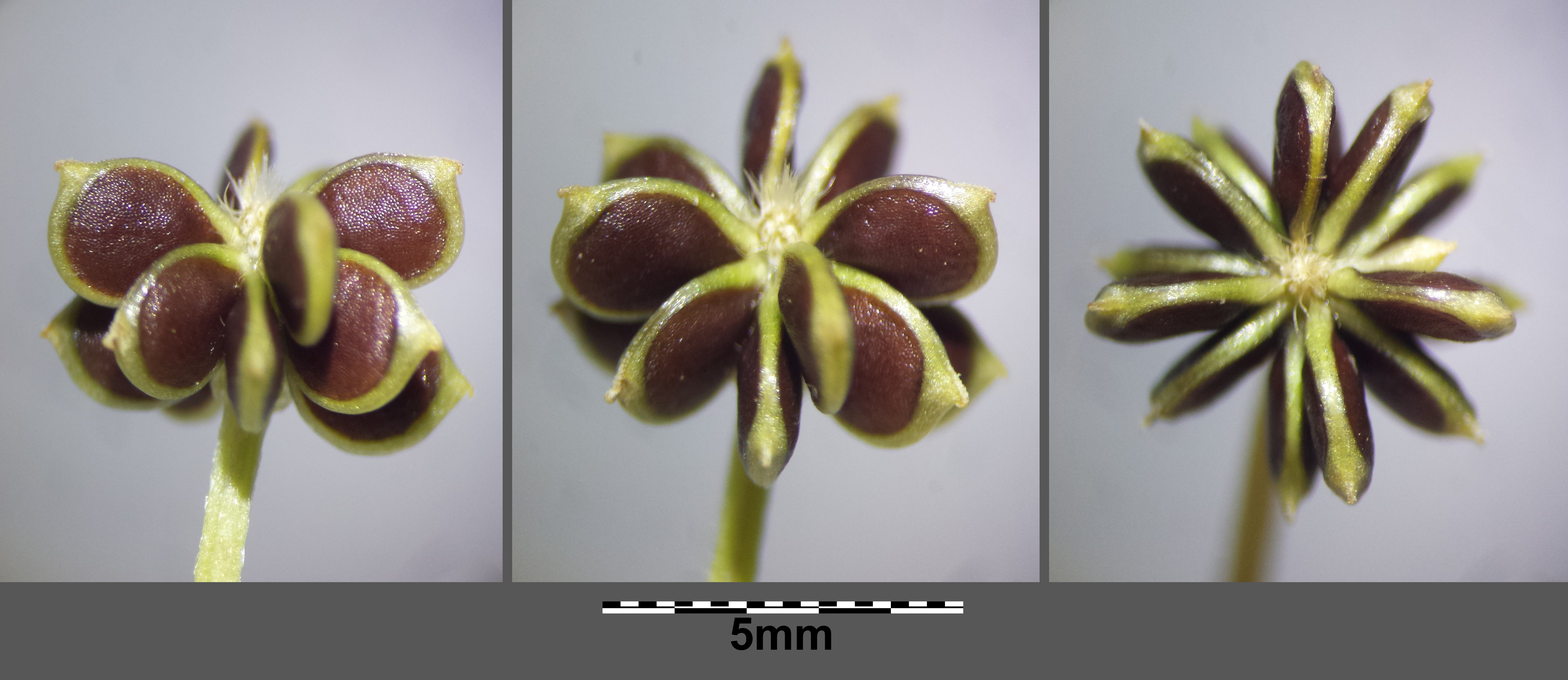 Fruit with nutlets Taxonym: Ranunculus sardous subsp. sardous ss Fischer et al. EfÖLS 2008 ISBN 978-3-85474-187-9 Location: Jedleseer Friedhof, Vienna-Floridsdorf - ca. 160 m a.s.l. Habitat: grave